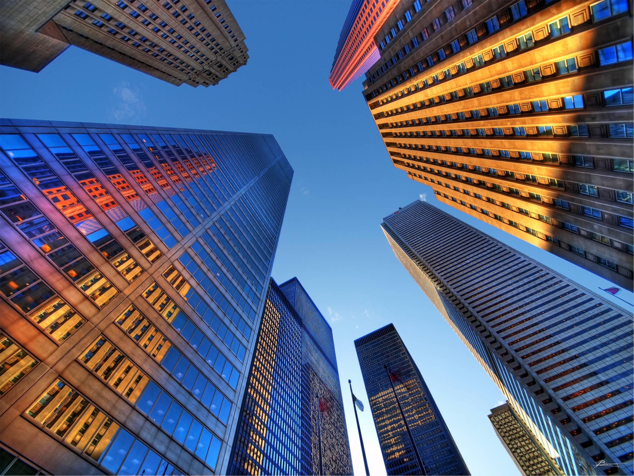 Skyscrapers on King Street West, Toronto